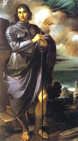 Saint Pancras of Rome (San Pancrazio, Saint Pancratius)